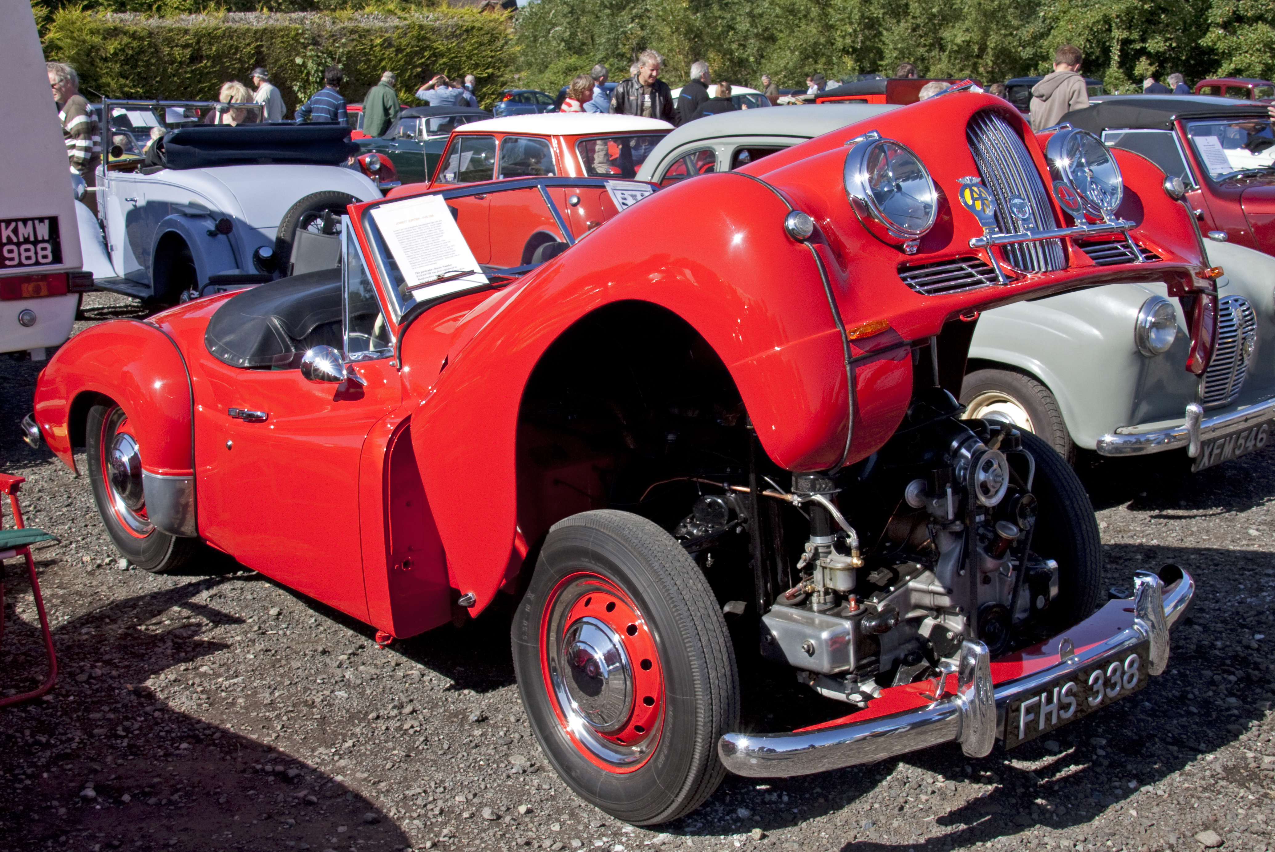 Jowett Jupiter